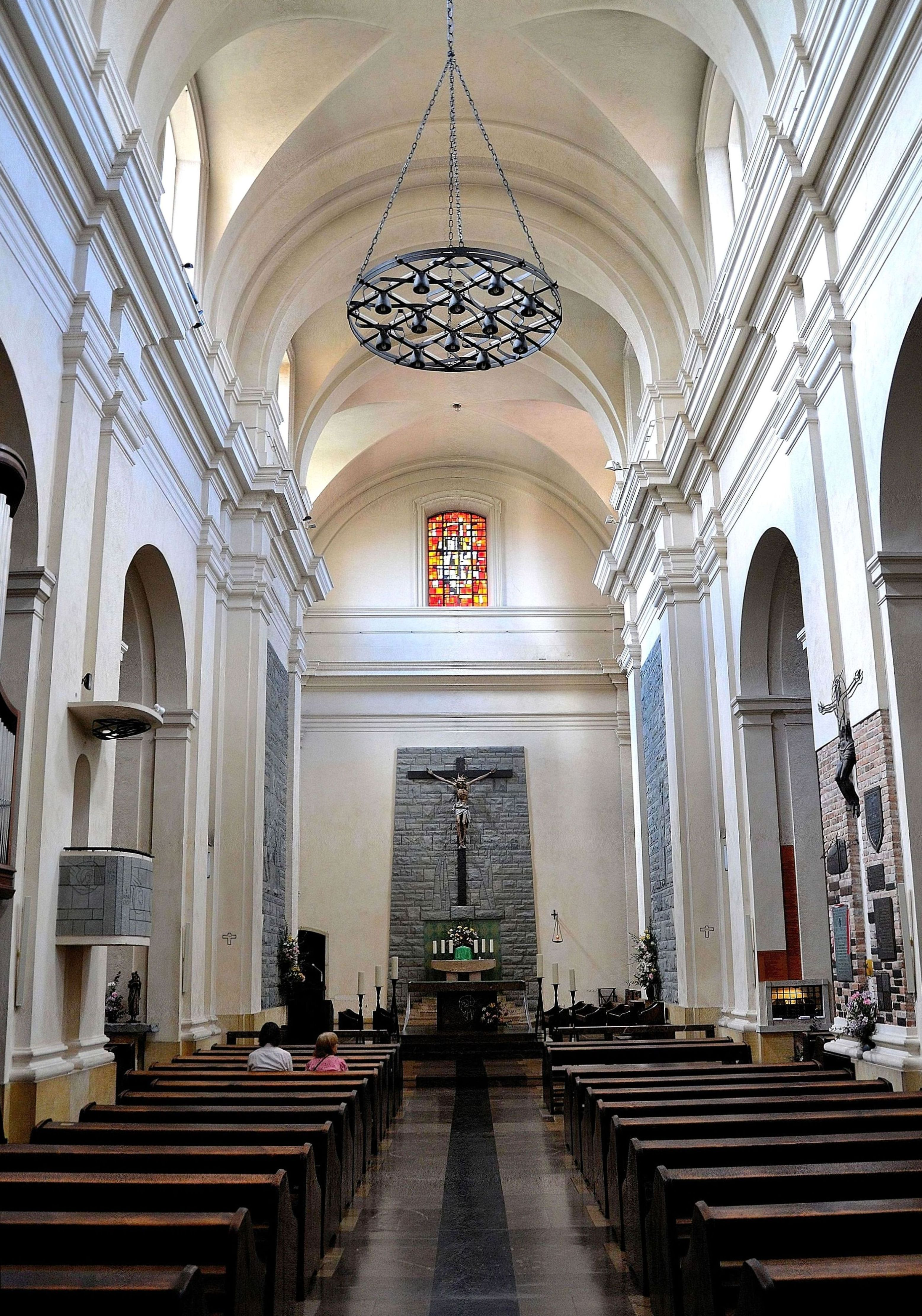 Interior of St. Martin's Church in Warsaw